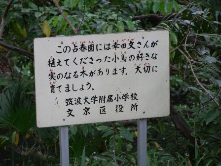 Signboard of afforestation by Aya Kouda